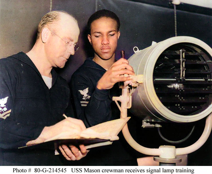 USS Mason (DE-529). Signalman Second Class Julius Holmes receives Signal lamp instruction from SM1c Ernest V. Alderman (left), during training for Mason's crew at the Norfolk Naval Training Station, Virginia, 3 January 1944.